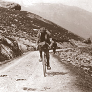 Eugene Christophe climbing the Galibier, on the way to the stage victory on stage 5 of the 1912 Tour de France.